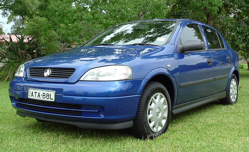 2004 Holden Astra (TS) Classic 5-door hatchback, photographed in Dora Creek, New South Wales, Australia.